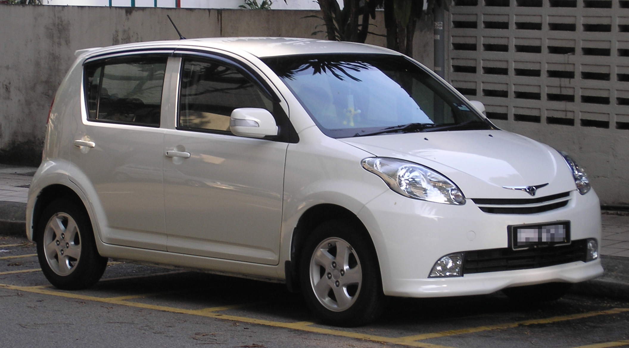 Front-side shot of a Perodua MyVi, in the Golden Triangle, Kuala Lumpur, Malaysia.